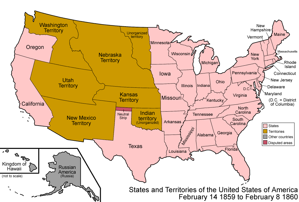 Map of the states and territories of the United States as it was from 1859 to 1860. On February 14 1859, part of Oregon Territory was admitted as the state of Oregon, the remainder joining on to Washington Territory. On February 8 1860, a dispute arose between Texas and the federal government over ownership of Greer County.